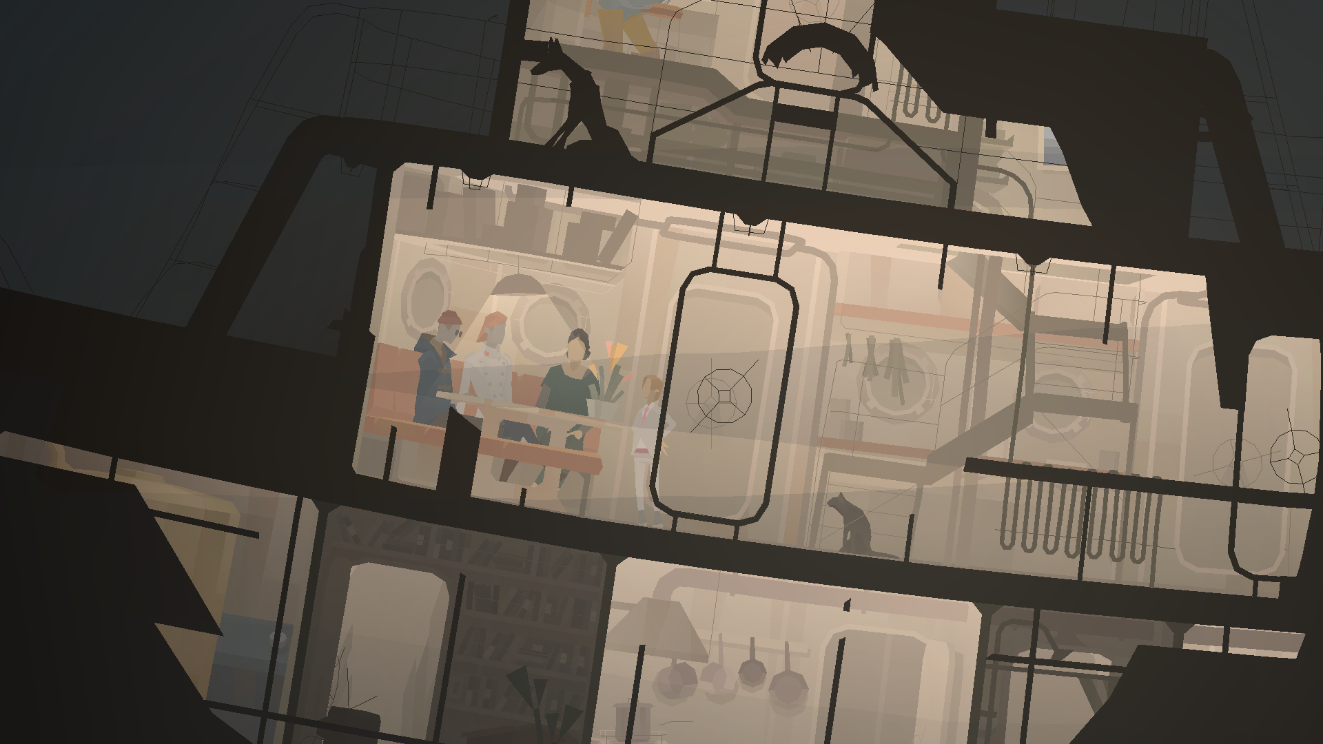 Screenshot of the game Kentucky Route Zero.